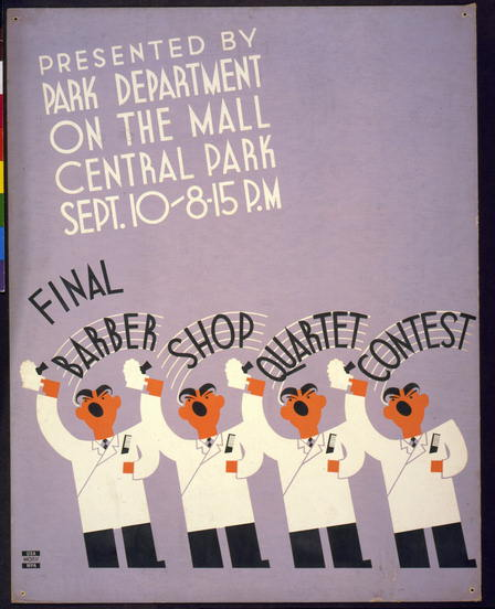 WPA poster announcing the Park Department's barbershop quartet contest, showing four men singing.